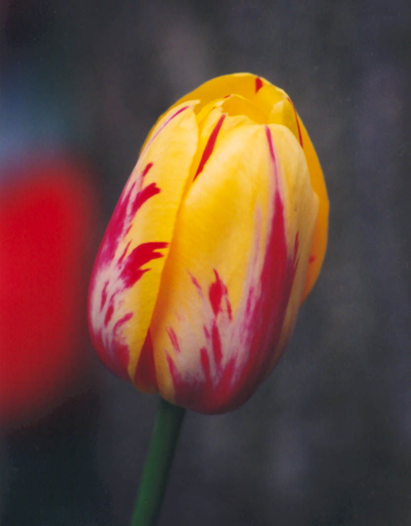 A streaked tulip flower